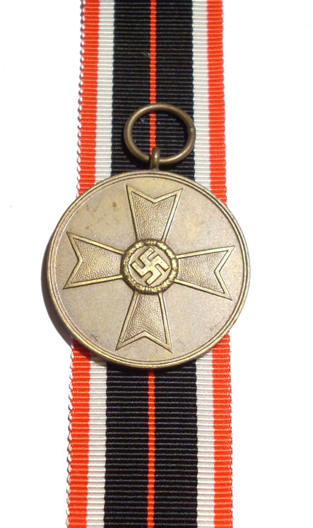 German War Merit Medal